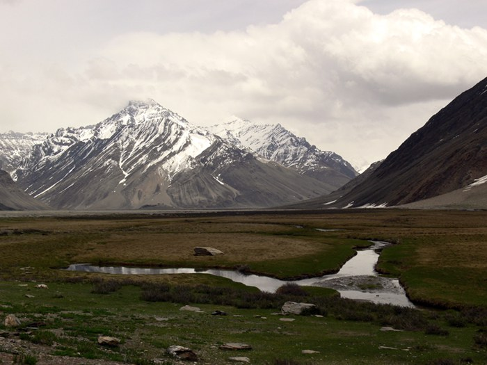 Rangdum Valley view, Zanskar, Ladakh, India